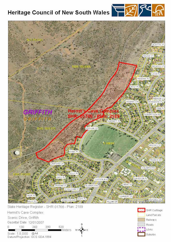 Hermit's Cave: SHR Plan 2189